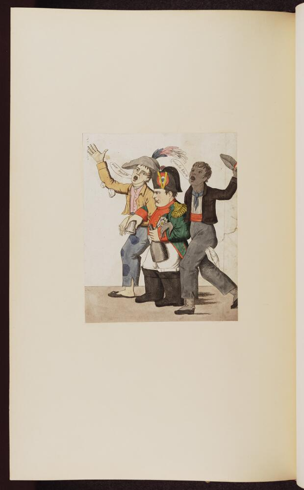 French political cartoon; Refers to Napoleon's appeal to the people of Paris during this return from Elba.